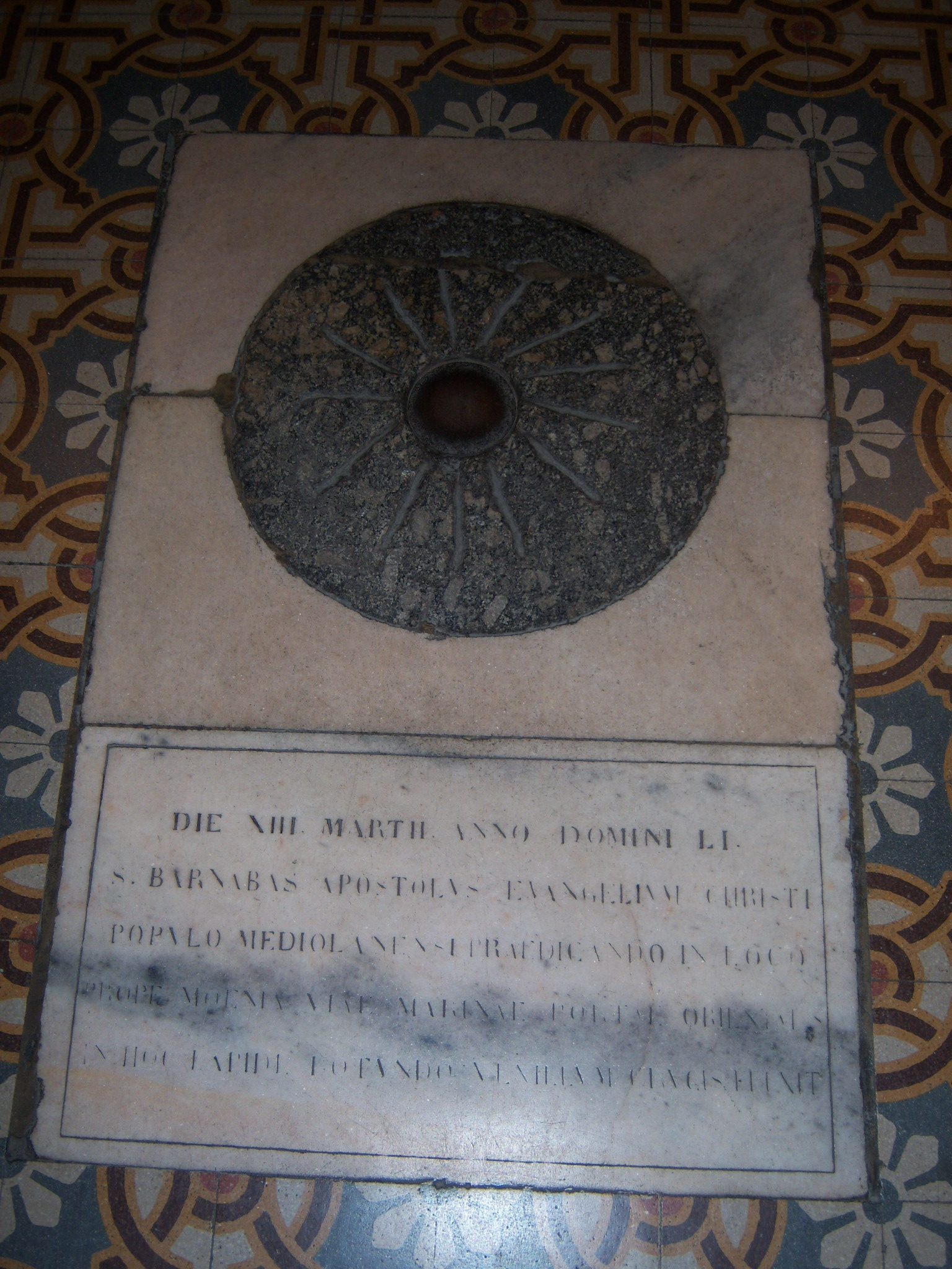 Church of Santa Maria al Paradiso, Milan, Italy - So-called "Stone of Saint Barnabas".